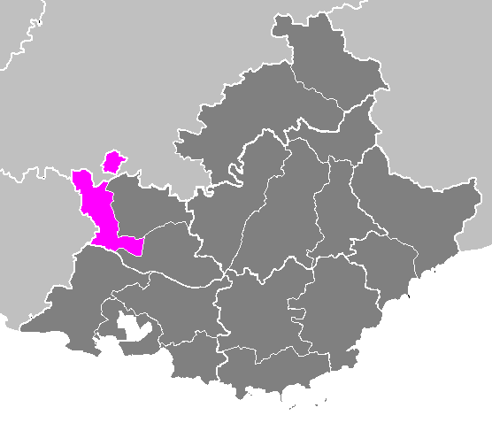 Maps of arrondissements and cantons of France: Arrondissement d Avignon.PNG